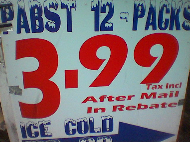 Image of mail in rebate offer on a 12pk of Pabst beer Photo by Brandie Uploaded on flickr with Attribution-Sharealike 2.0 license on July 12, 2005